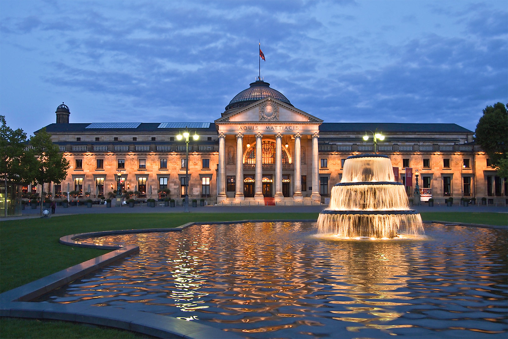 Kurhaus Wiesbaden (spa house) with one Fountain of the Bowling Green in the evening, Germany